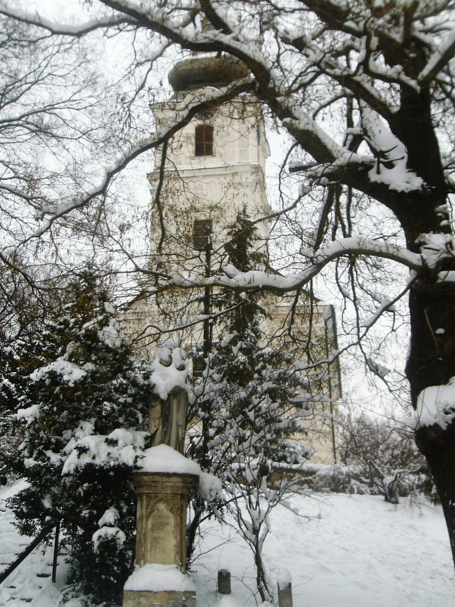 Dunafoldvar, Hungary